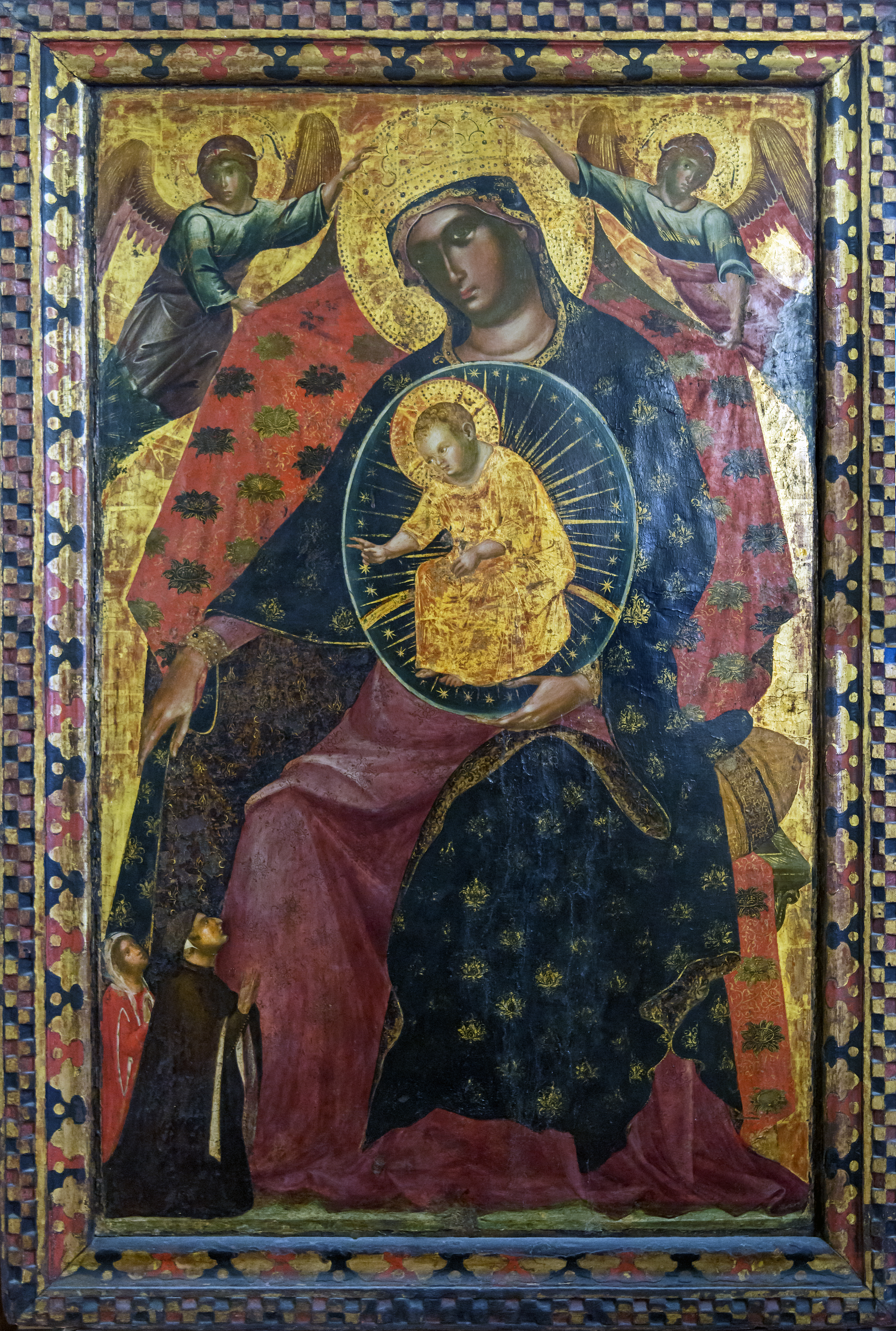 Madonna and Child with two Votaries by Paolo Veneziano (1325), Gallerie dell'Accademia in Venice. Tempera on panel. Provenance : Ca' d'Oro Size : 142 x 90 cm